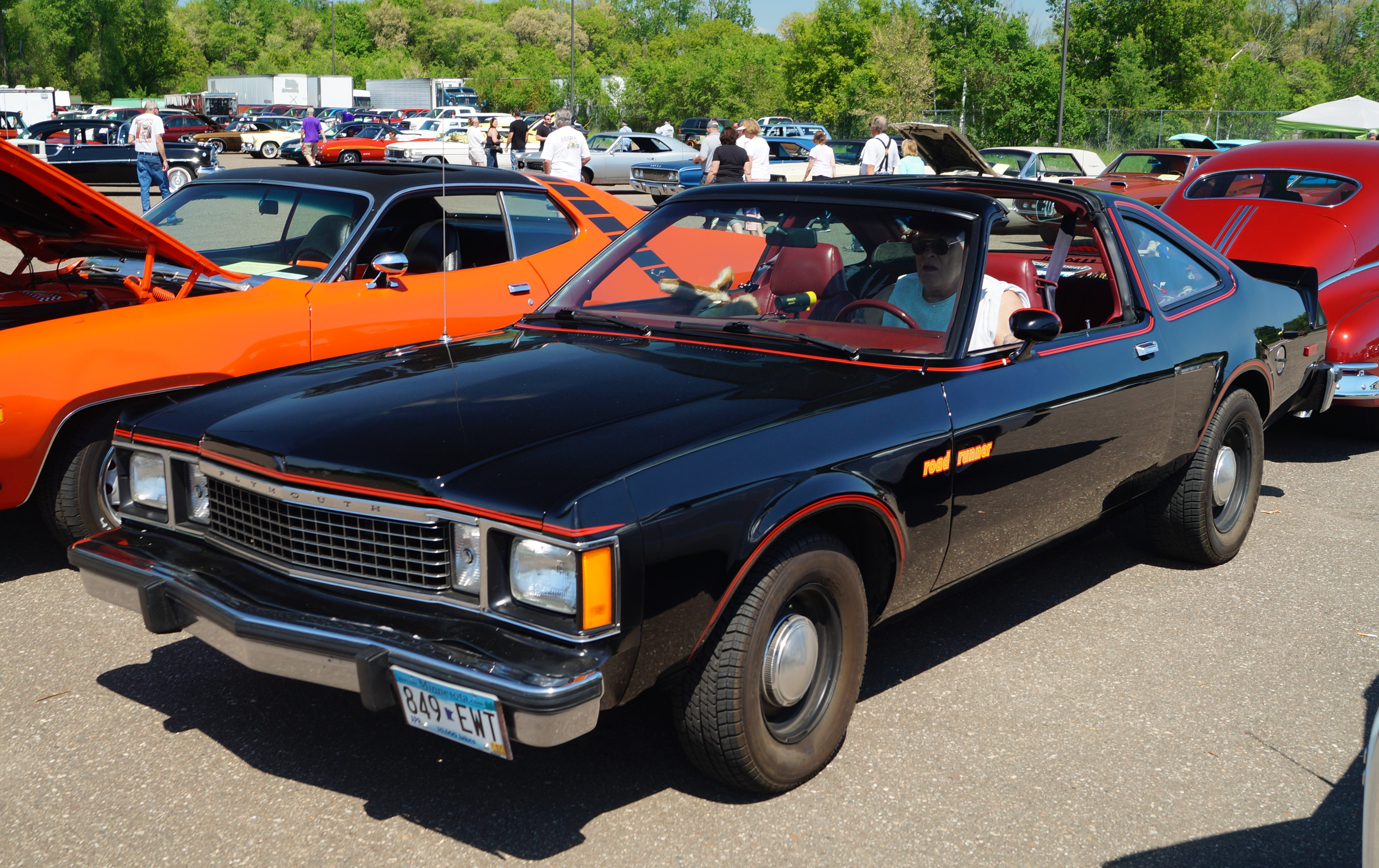 1980 Plymouth Volare Roadrunner